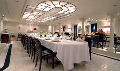 Christina O Dining Room